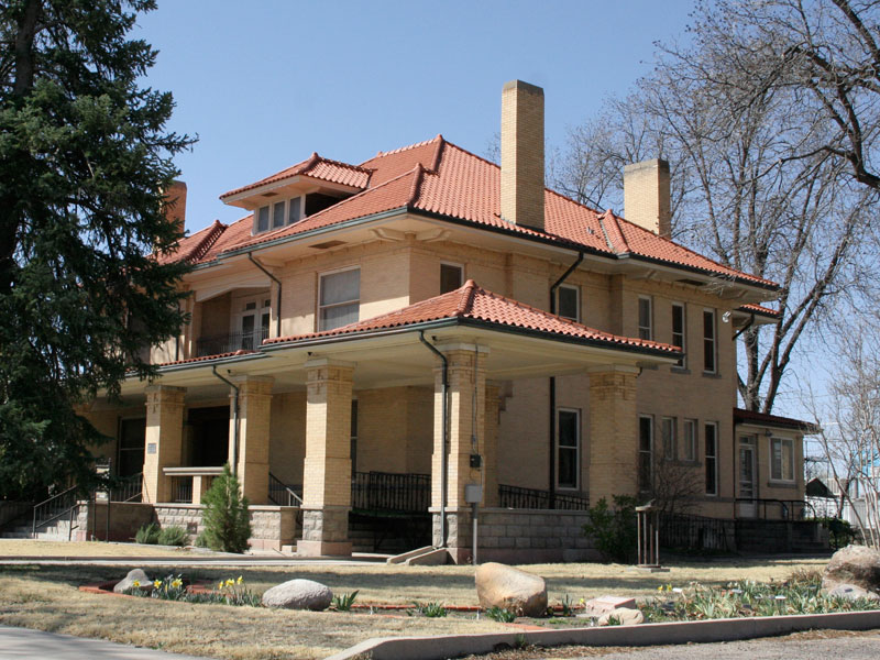 Roswell, New Mexico - Originally built for the James Phelps White family in 1912, the Historical Center for Southeast New Mexico is home to a museum filled with an incredible array of antiques and artifacts.